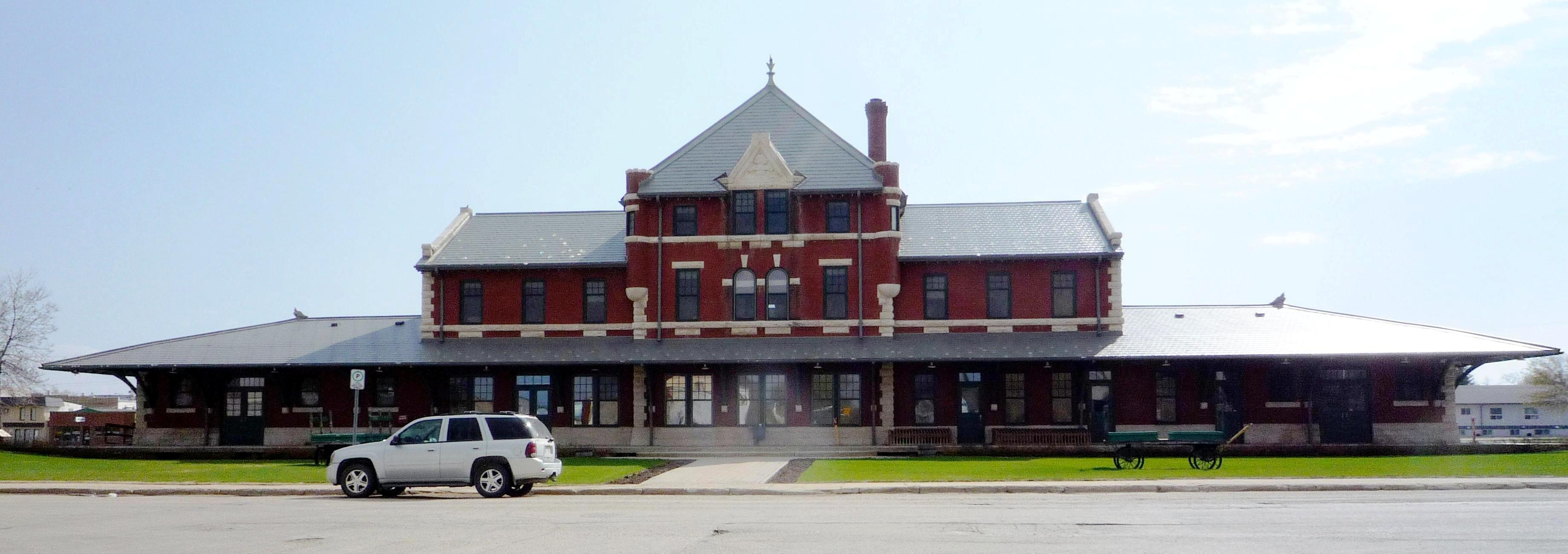 The historic Dauphin Canadian Northern Railway Station, in Dauphin, Manitoba, was built in 1912 and is Manitoba Provincial Heritage Site No. 100.